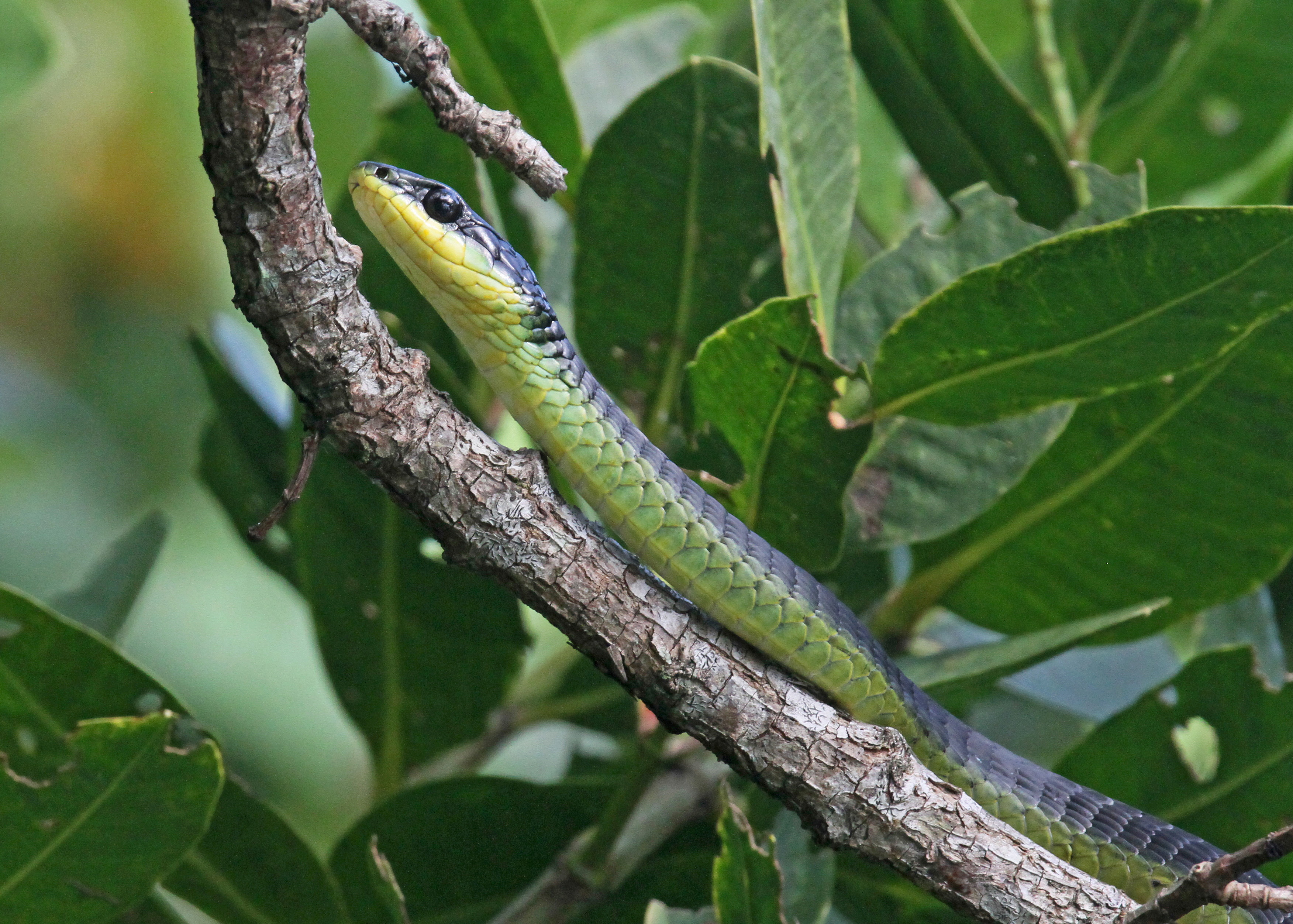 photo of Green Tree Snake